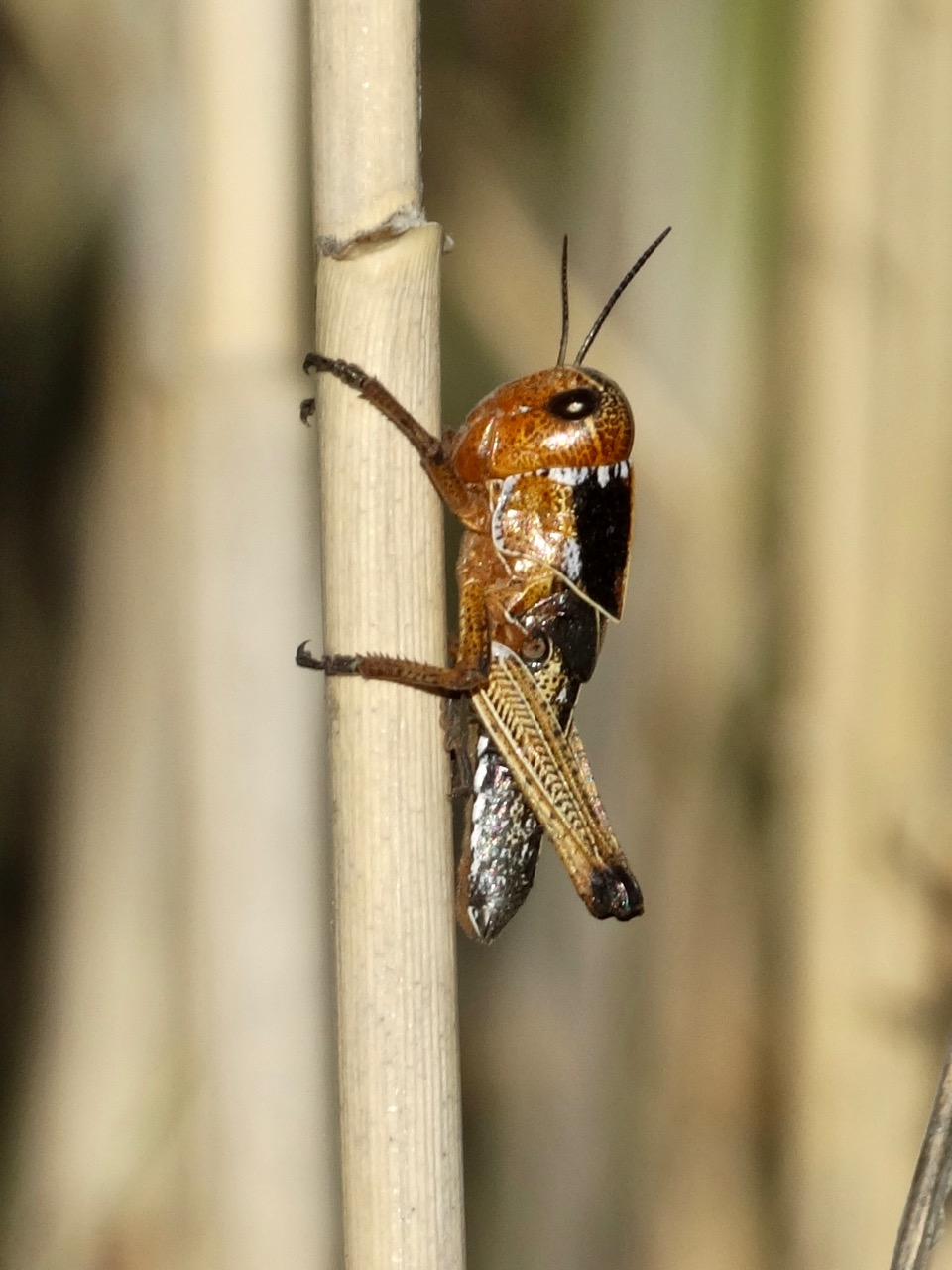 Fourth instar hopper (L4) of Locusta migratoria migratoria photographed near Zhideli, Lake Balkhash, Almaty Region, Kazakhstan